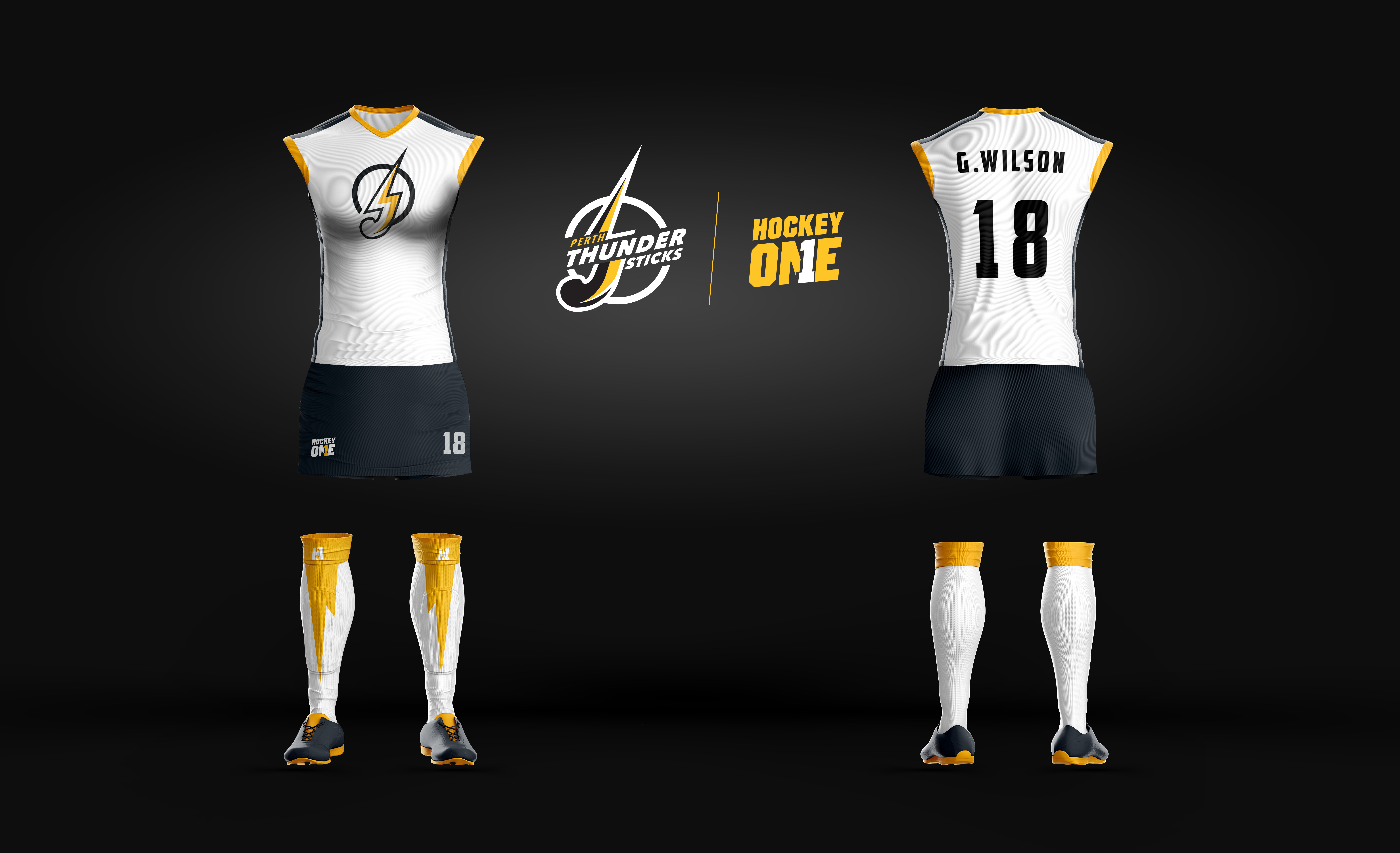 Perth Thundersticks women's uniform